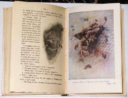 Photographic reproduction of two pages from: Luigi Bertelli: Ciondolino. Firenze (Florence) ca. 1915. Illustration of a death's-head hawkmoth by Carlo Chiostri. Bertelli's italian children's novel was first published in 1895 in Florence. English translations: "The Prince and His Ants", 1910 und 1937, "The Emporor of the Ants", 1935/37; German translation: "Max Butziwackel der Ameisenkaiser", 1920.